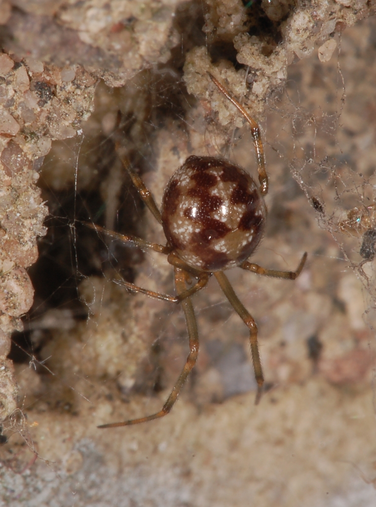 Steatoda triangulosa, Nied, Frankfurt/Main, Germany